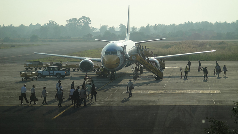 NokAir Get Passenger's from Nakhon si thammarat to BKK